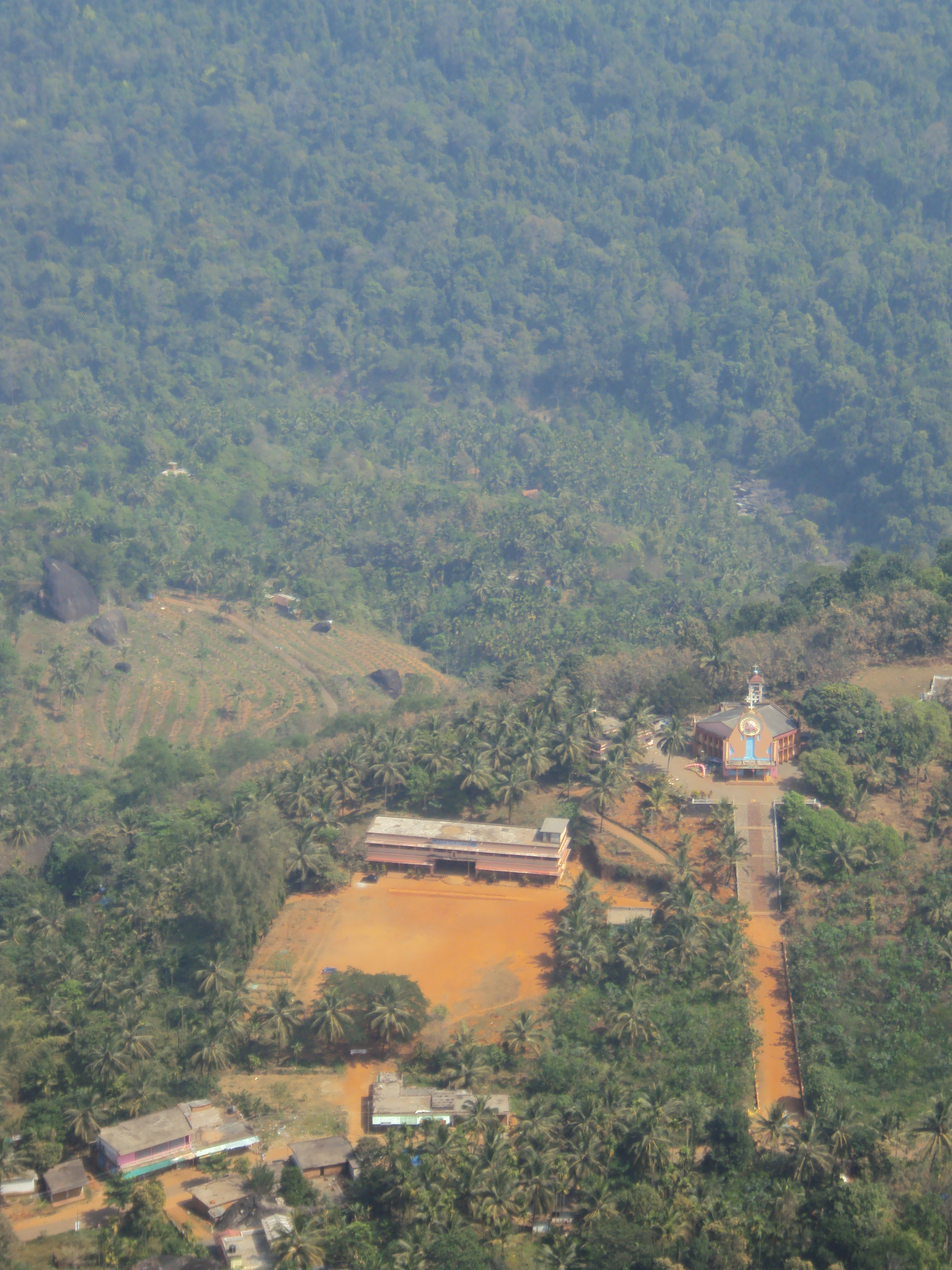 Kanjirakkolli - view of school and church from nearby hill